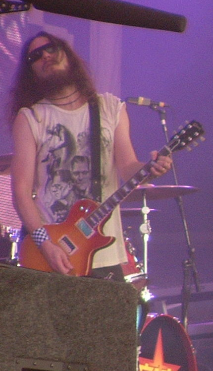 The New Lineup of GUNS N' ROSES (Robin Finck, Tommy Stinson, Axl Rose and Richard Fetus)